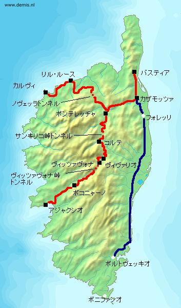 Corsican Railway Network in Japanese/Reseau CFC en japonais